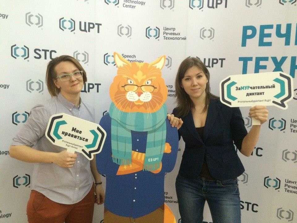 Кот Ученый - "диктатор" Тотального диктанта в Санкт-Петербурге в 2015 году